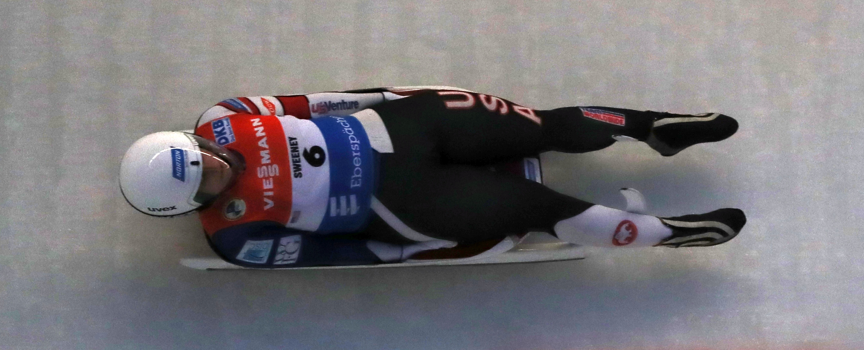 Emily Sweeney in Altenberg